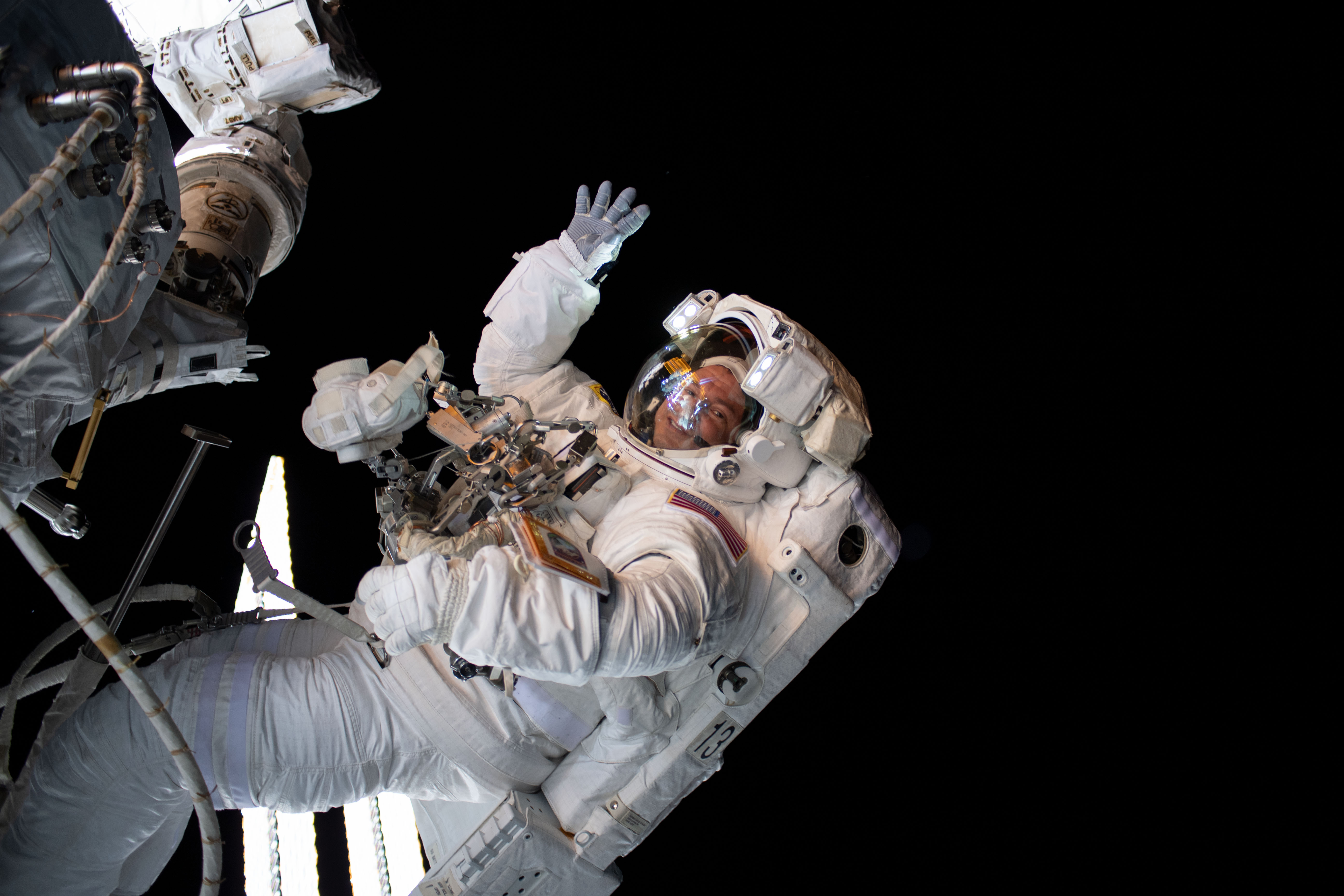 NASA astronaut Andrew Morgan waves as he is photographed during a spacewalk to install the International Space Station’s second commercial crew vehicle docking port, the International Docking Adapter-3 (IDA-3). At the top left you can see portions of IDA-3 as long as Canadarm2's grapple.